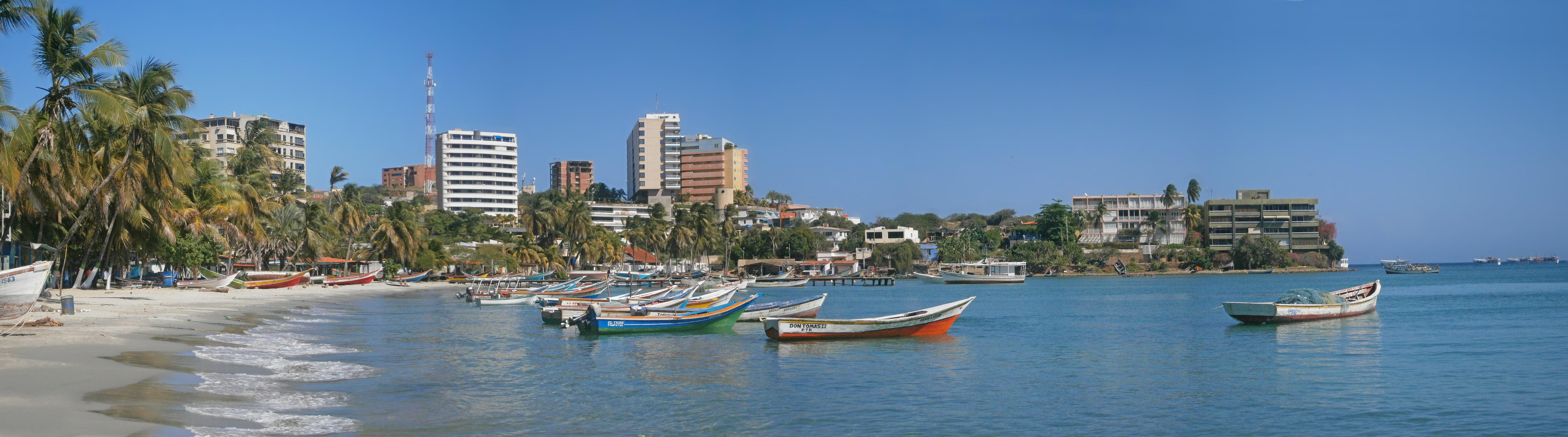 Panoramic view of Pampatar beach